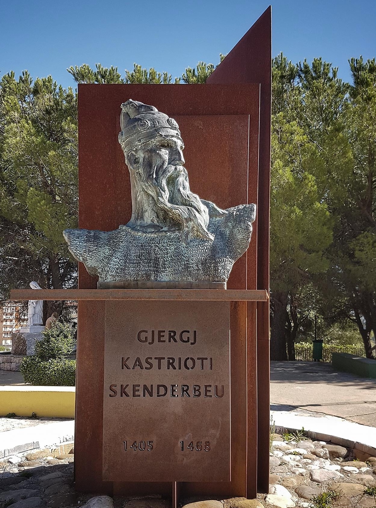 Bust of the Albanian sculptor Odhise Paskali given by the Albanian Government to the Municipality of Piana degli Albanesi (Hora e Arbëreshëvet, PA) and to its community in 1968. Already settled in the Villa Comunale, transferred to the Municipal Library due to a fall for which it has damaged the upper part of the sculpture, it was recently repositioned in the place of origin. Photo of Giorgio Lucito.